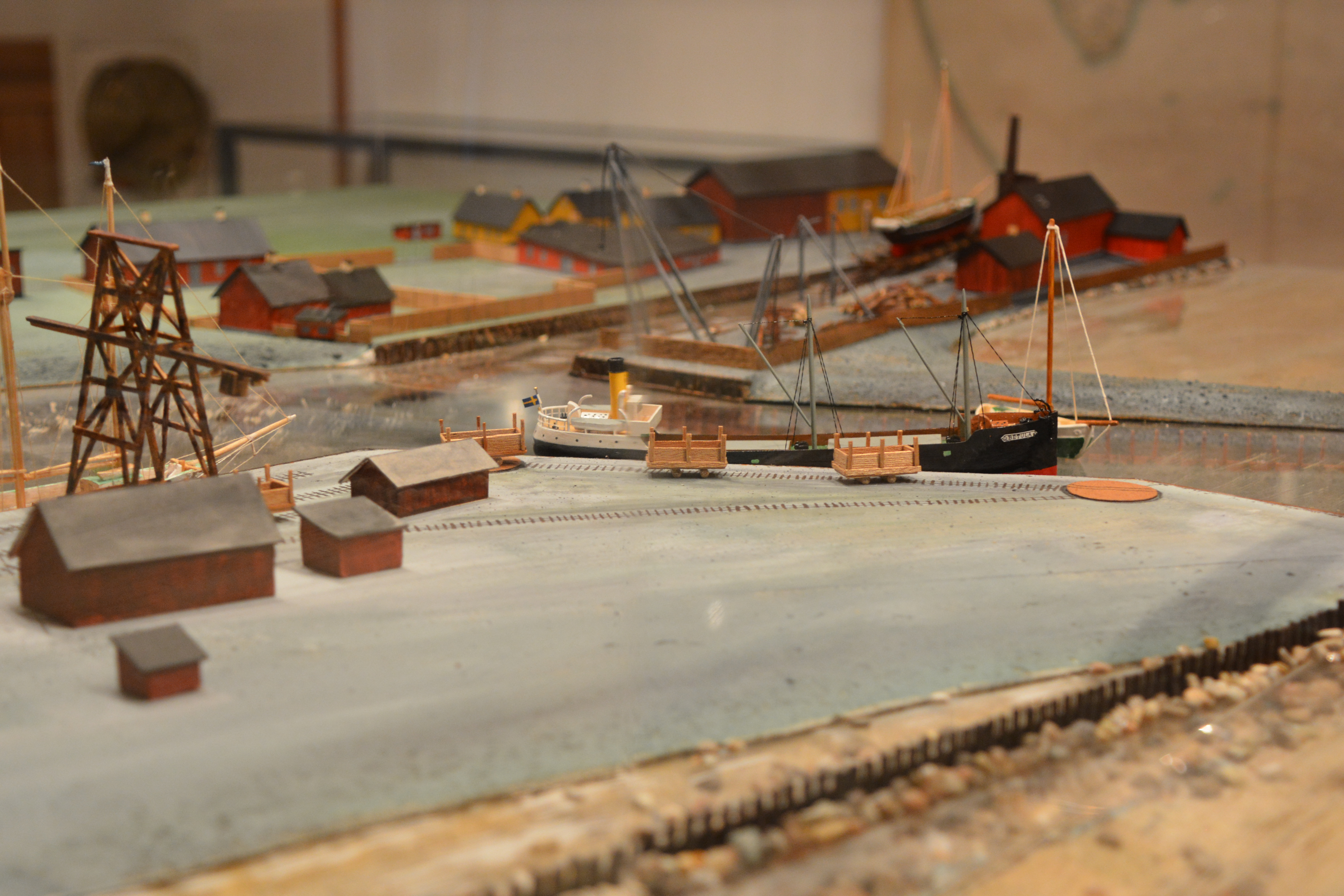 Råååns utlopp i Råå- Modell i Råå museum för fiske och sjöfart i Råå.